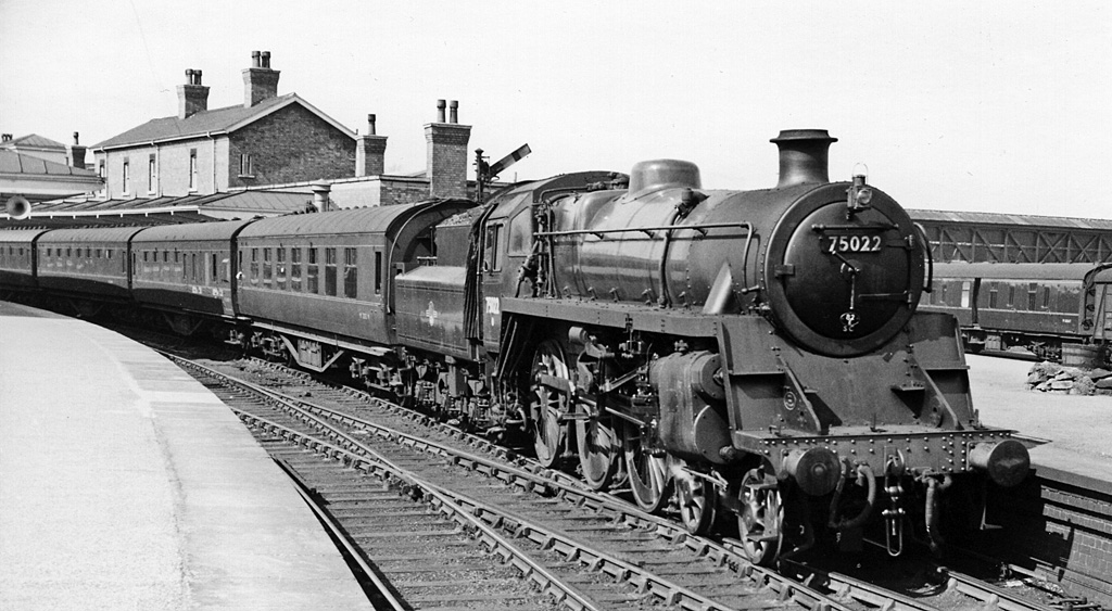 Gloucester Eastgate in 1959, with Up stopping train. View westwards from the east end of the Down platform: compare with SO8318 : The 'Devonian' at Gloucester Eastgate, SO8318 : Gloucester Eastgate Station in 1950, with a 'Compound' 4-4-0 and SO8318 : Gloucester Eastgate Station in 1962, with a 2MT 2-6-0. This is the 09.15 stopping train from Bristol Temple Meads, headed by very smart BR Standard 4MT 4-6-0 No. 75022, which will proceed presently to Birmingham New Street.